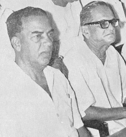 Comrade BTR (right) with Comrade AKG a group photo of the first PB,1940